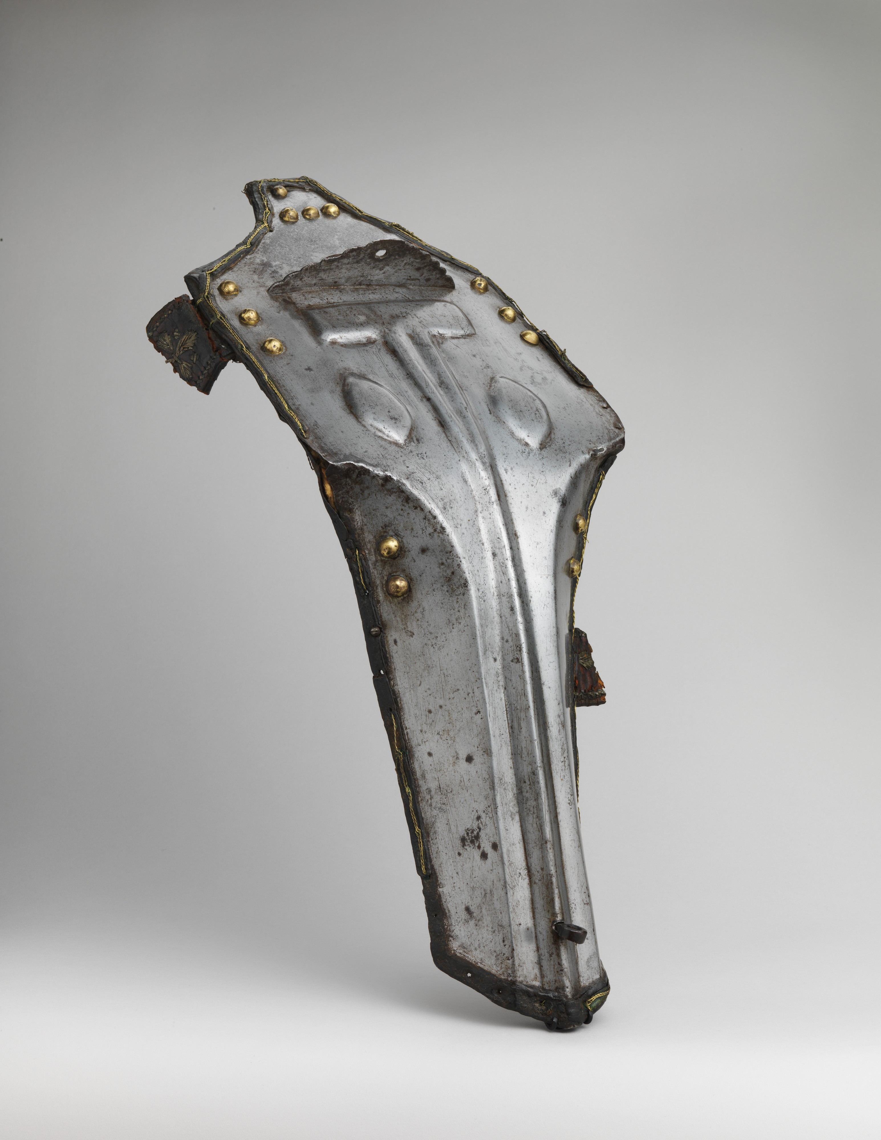 "Camels were used in the Middle East not only for transport but also for battle. Judging from its sharply angled profile, this shaffron of steel plate was probably intended for a war camel. By contrast, shaffrons for horses have flat profiles." Culture: Turkish. Classification : Equestrian Equipment-Shaffrons. Source of the description